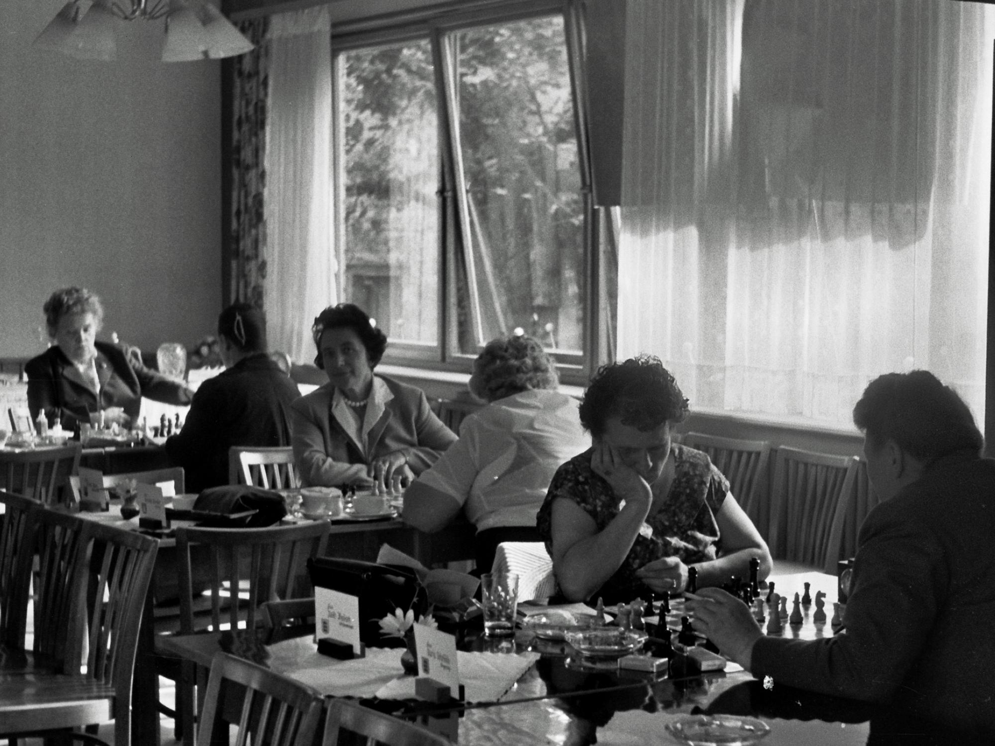 Maria Imkamp - Juliane Hund, Gretel Rahn - Anneliese Brandler, Ruth Baitsch - Maria Scheffold, German Chess Championship (women) 1959 at Dahn, Photographer Gerhard Hund.